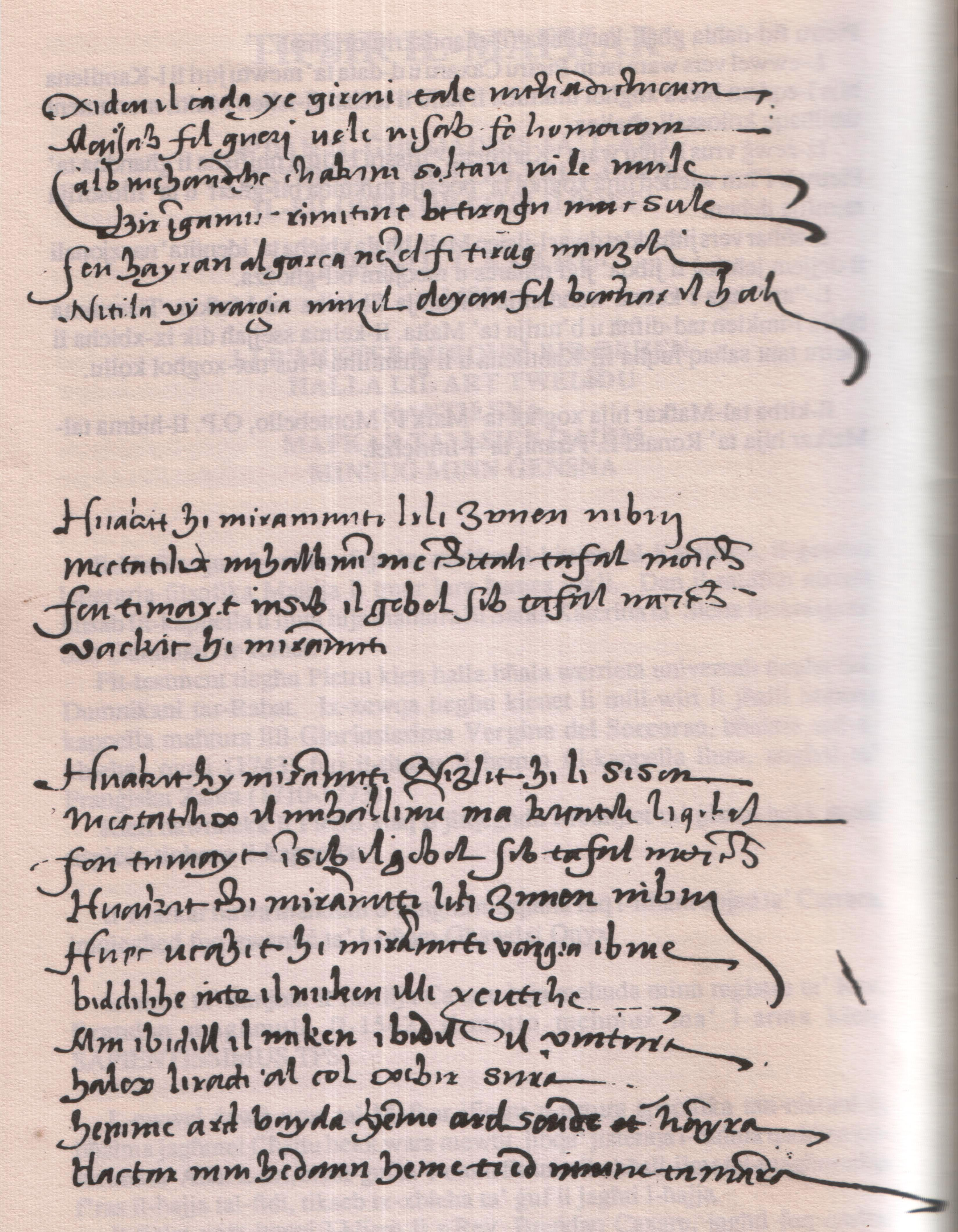 Peter Caxaro's c. 1450 Cantilena